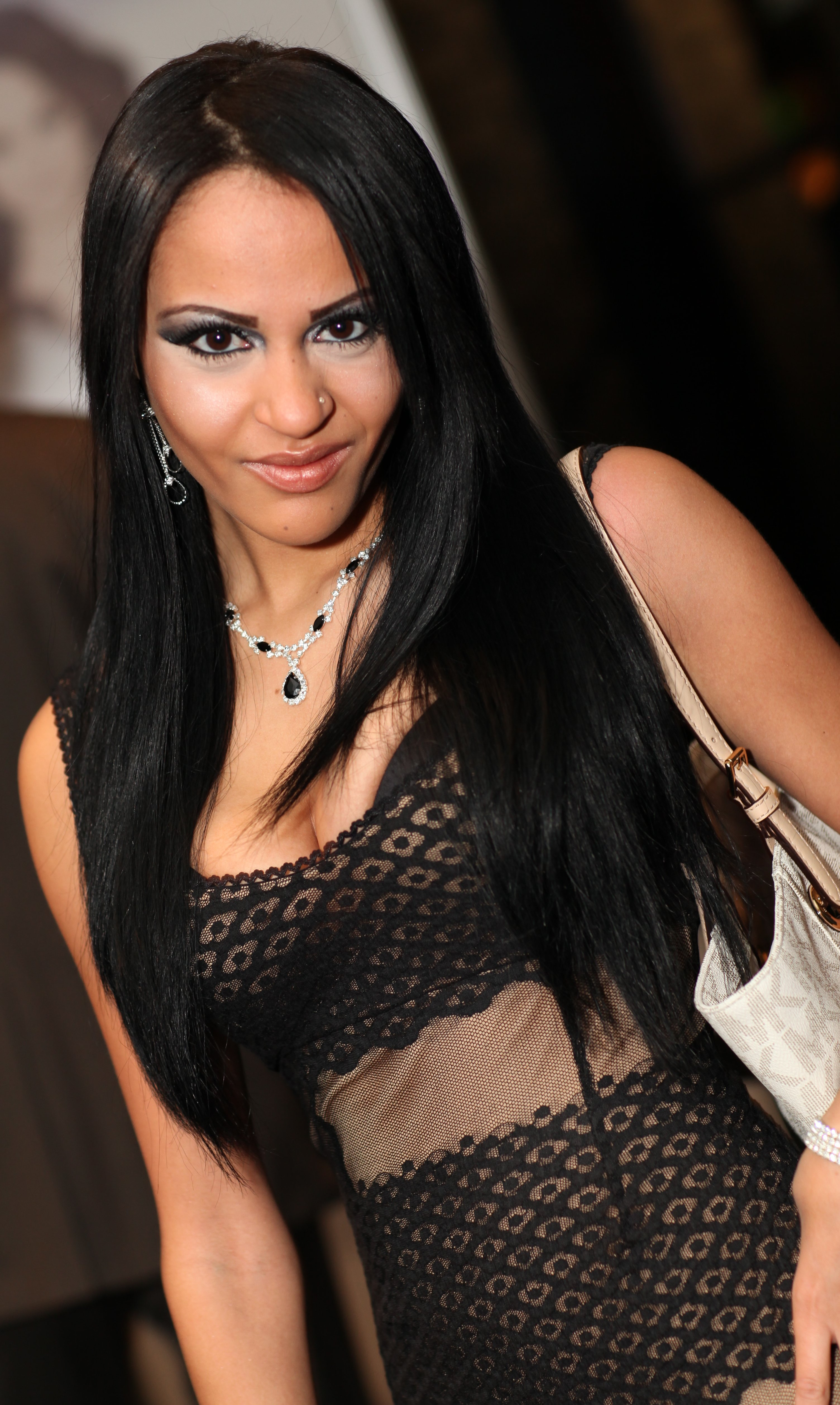 Kimberly Kendall - Photos from the 2013 AVN Expo & AVN Awards held at the at the Hard Rock Hotel & Casino in Las Vegas. Please provide photographer credit when using, tweeting, etc... Photo by Michael Dorausch This photo is licensed under a Creative Commons license. If you use this photo within the terms of the license or make special arrangements to use the photo, please list the photo credit as "Michael Dorausch" and link the credit to .